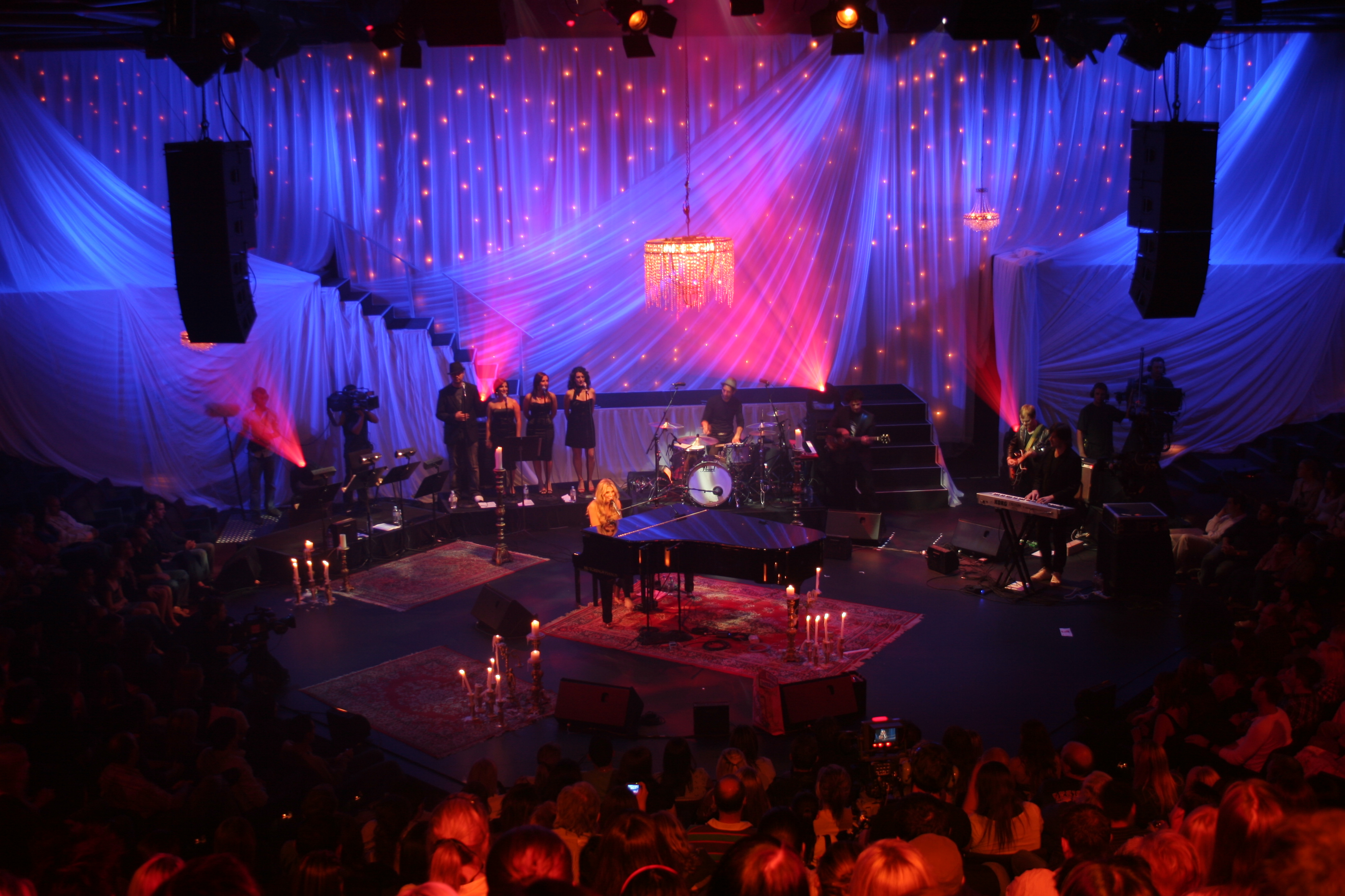 A Night With Delta Goodrem Concert